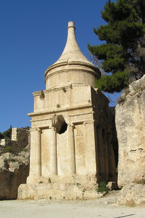 Yad Avshalom, on Mt. Olives slopes, Jerusalem Photographed by Eman on June 2005